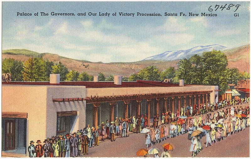 File name: 06_10_015680 Title: Palace of the Governors and Our Lady of Victory Procession, Santa Fe, New Mexico Created/Published: Pub. by Southwest Arts & Crafts, Santa Fe, New Mexico; Tichnor Bros. Inc., Boston, Mass. Date issued: 1930 - 1945 (approximate) Physical description: 1 print (postcard) : linen texture, color ; 3 1/2 x 5 1/2 in. Genre: Postcards Subjects: Historic buildings Collection: The Tichnor Brothers Collection Location: Boston Public Library, Print Department Rights: No known restrictions Flickr data on 2011-08-17: Camera: Epson Exp10000XL10000 Tags: postcard, tichnor brothers, New Mexico License: CC BY 2.0 User: Boston Public Library